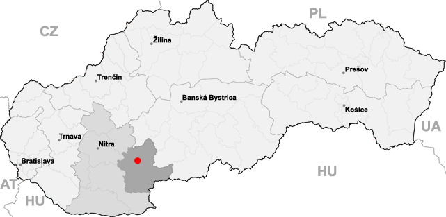 map of Slovakia, city of Levice highlighted